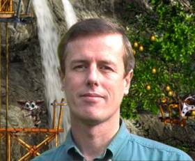 Steve Grand OBE, pionier of AI and chief programmer of the wellknown game Creatures.